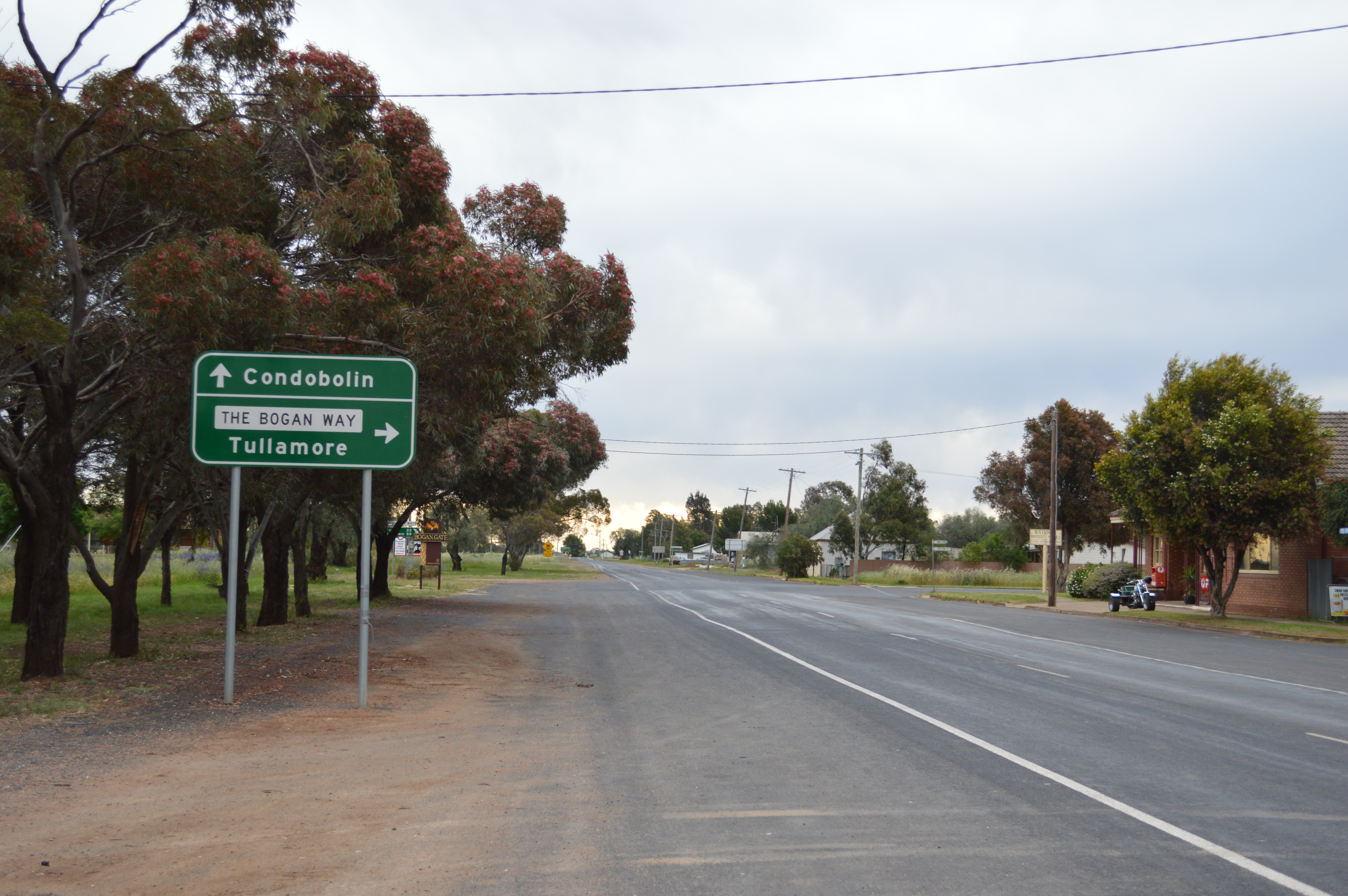 Sign marking the Bogan Way at Bogan Gate, New South Wales